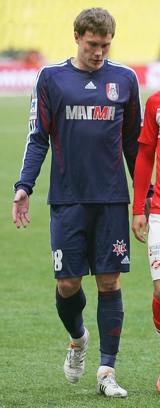 Pavlo Stepanets playing for FC Mordovia Saransk.